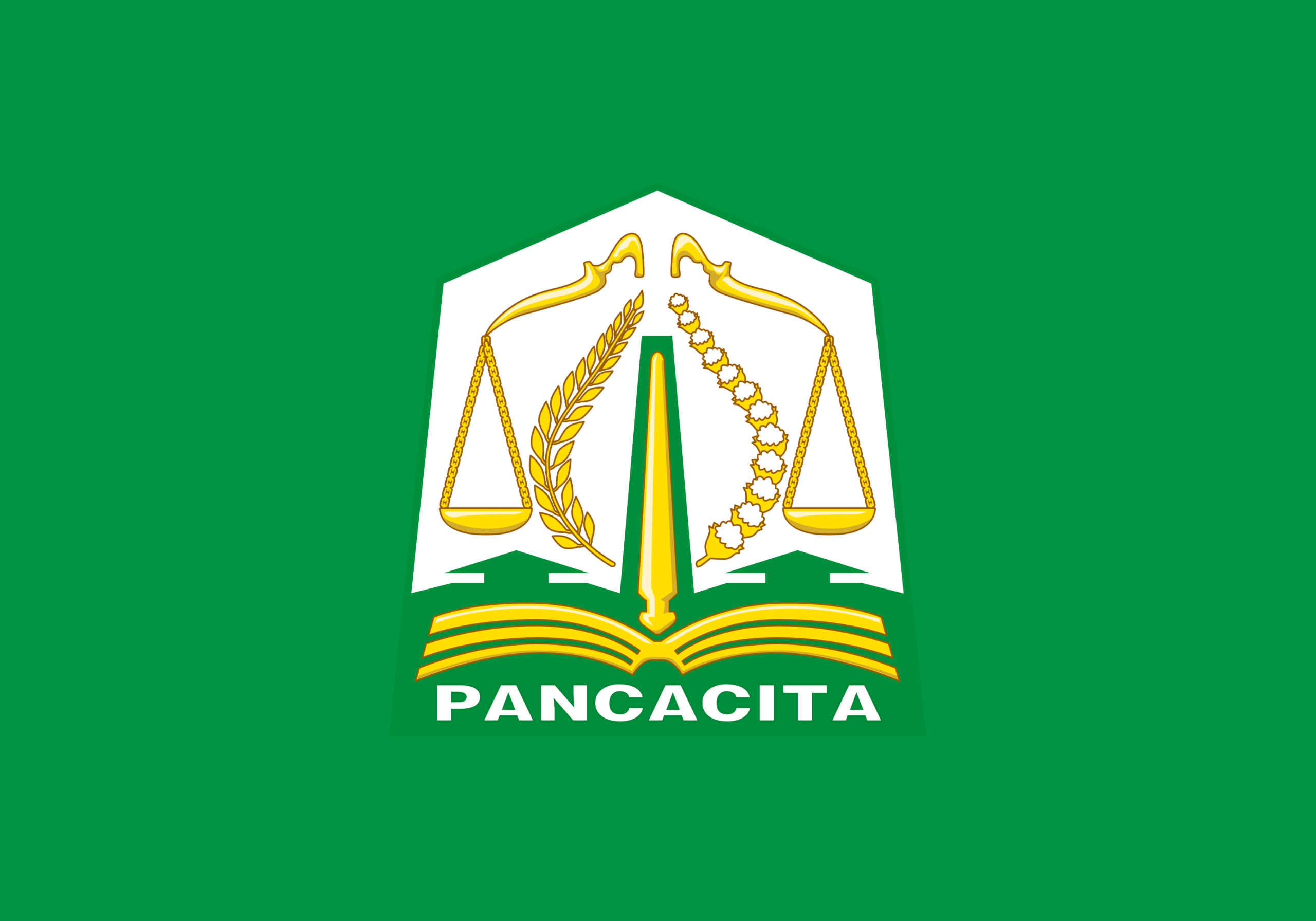 Flag of Aceh, See legal regulation about the flag.